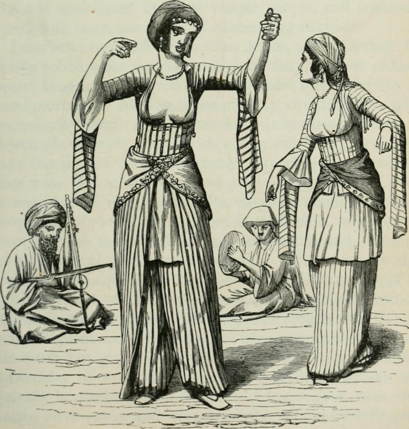 Two girls dancing. Two men behind playing musical instruments. . Engraving (prints).